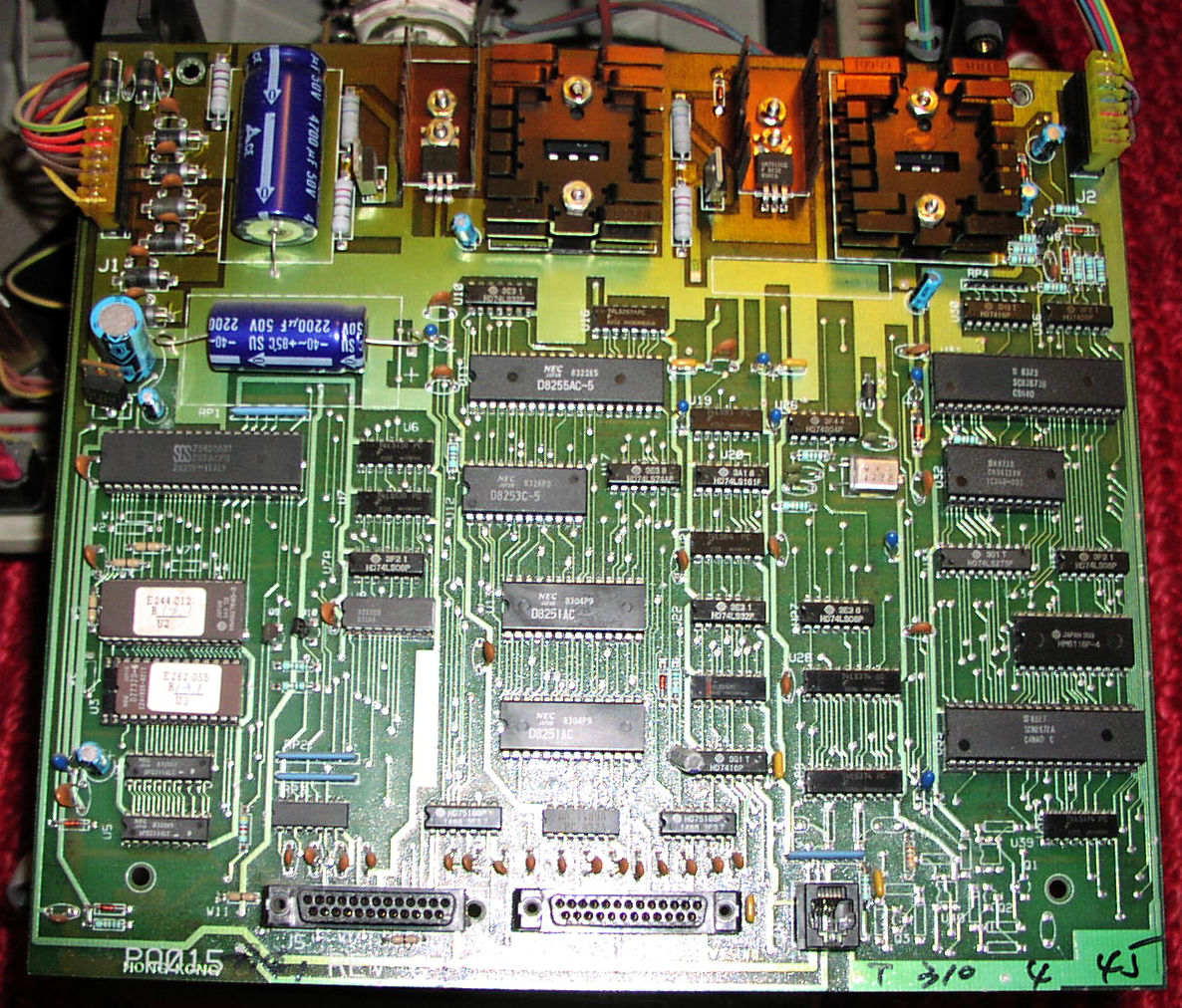 Visual 50 Computers motherboard